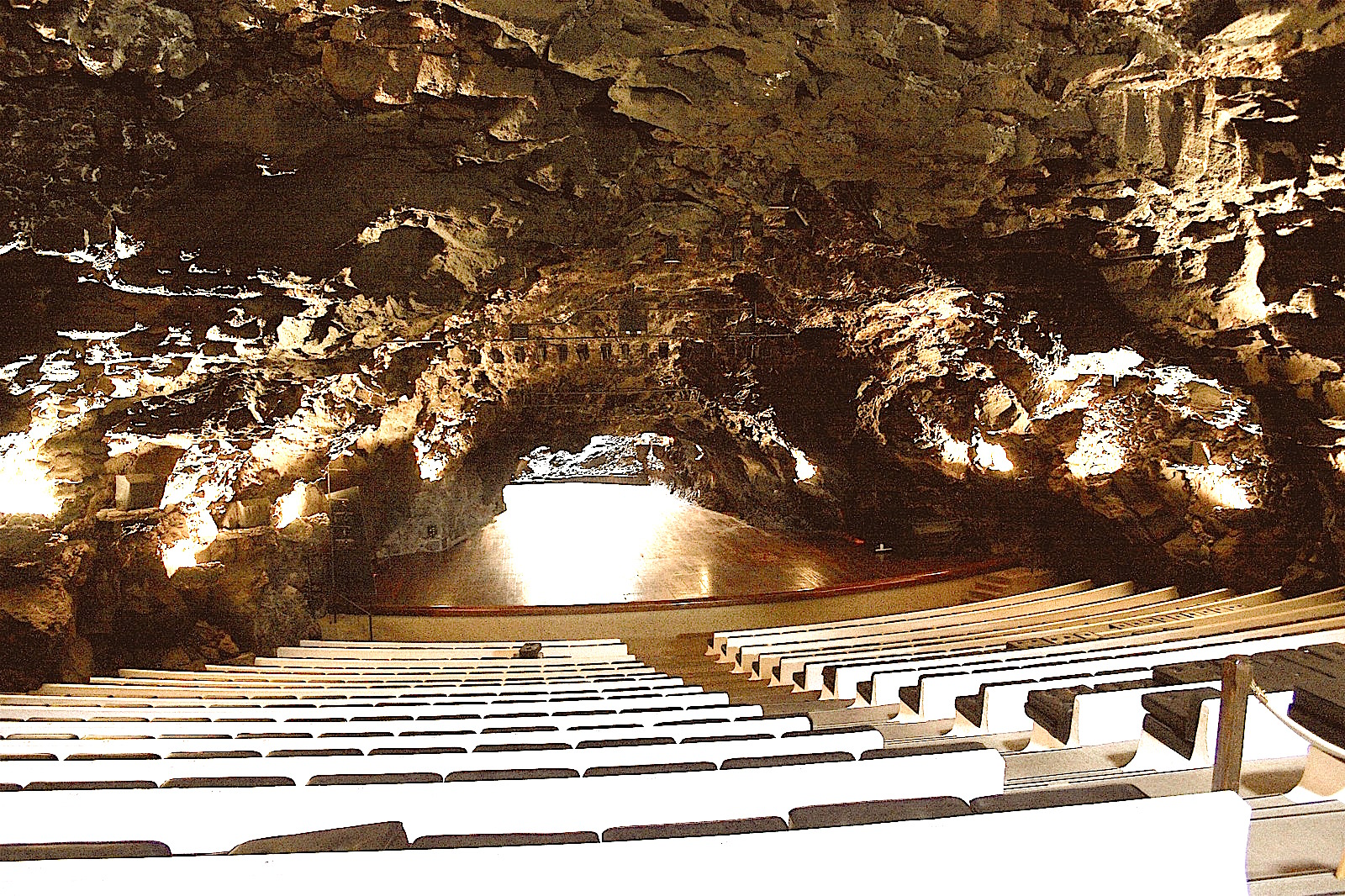 Concert hall at Jameos Del Agua on Lanzarote